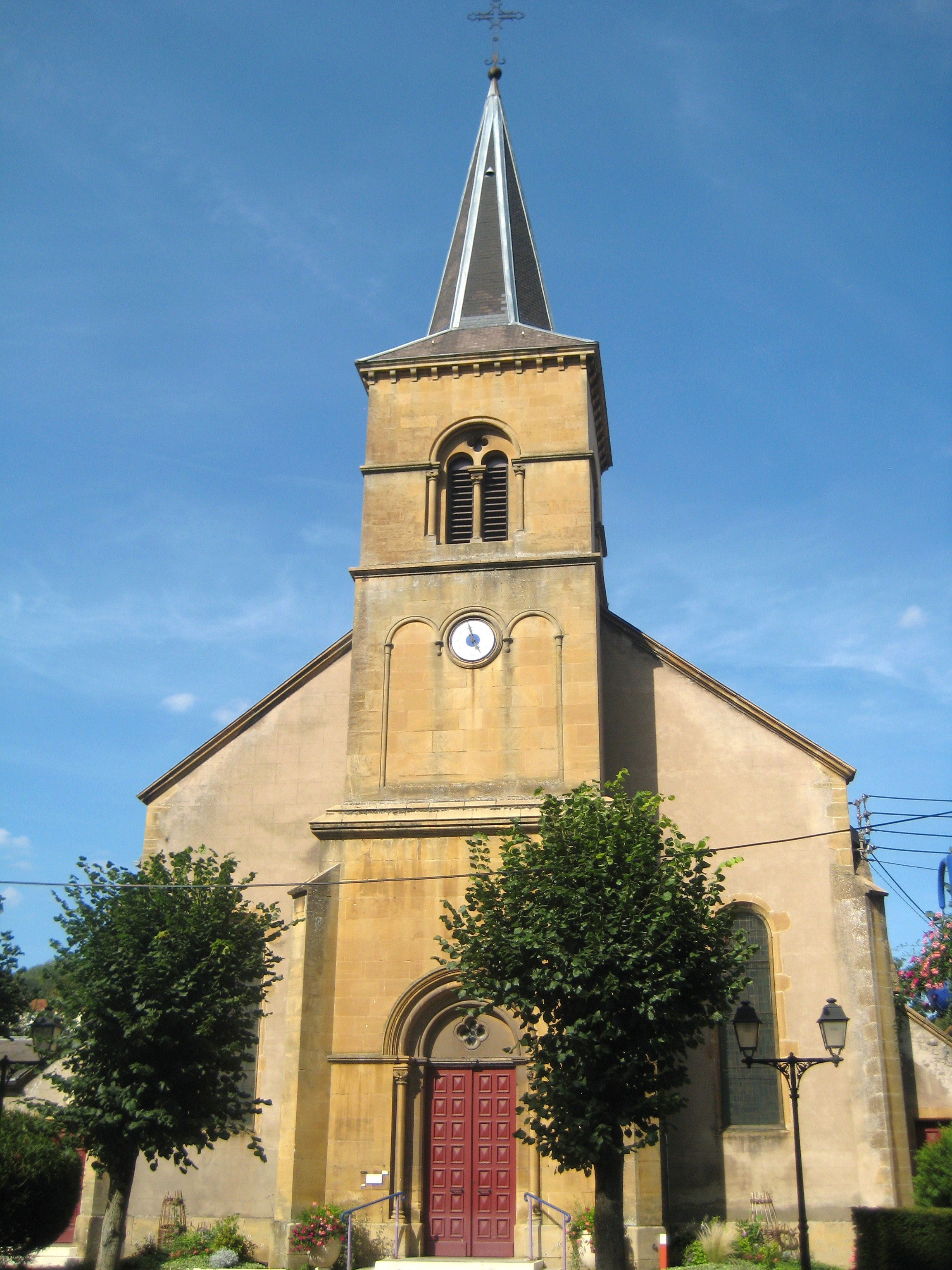 Description Église Saint-Charles Knutange Date25 August 2011Sourcemon appareil photoAuthorAimelaimePermission (Reusing this file) Église Saint-Charles Knutange